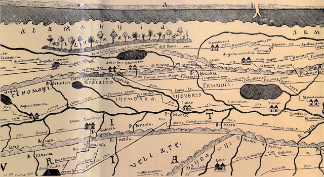 Tabula Peutingeriana showing the Alps and vicinity